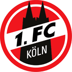 Logo Koln